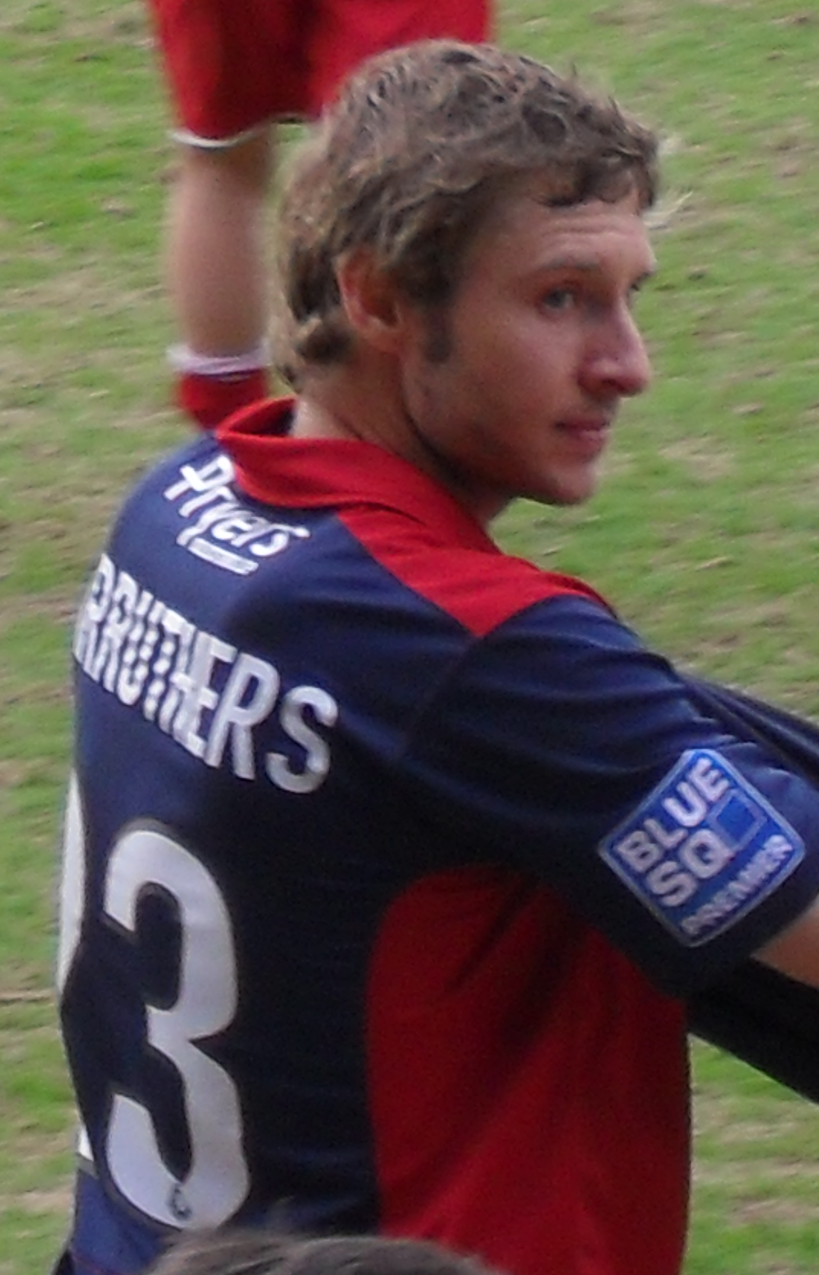 Chris Carruthers